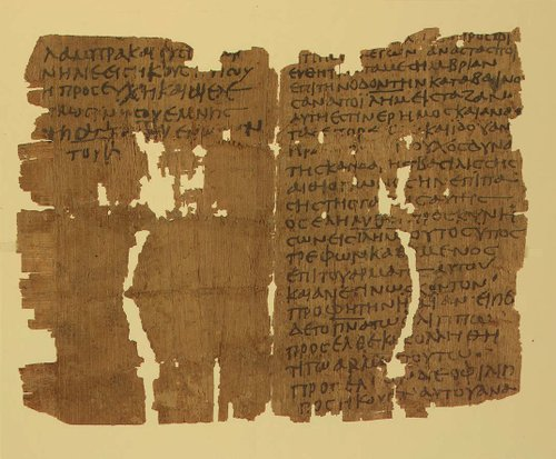 Papyrus 50; Acts 10,26-31